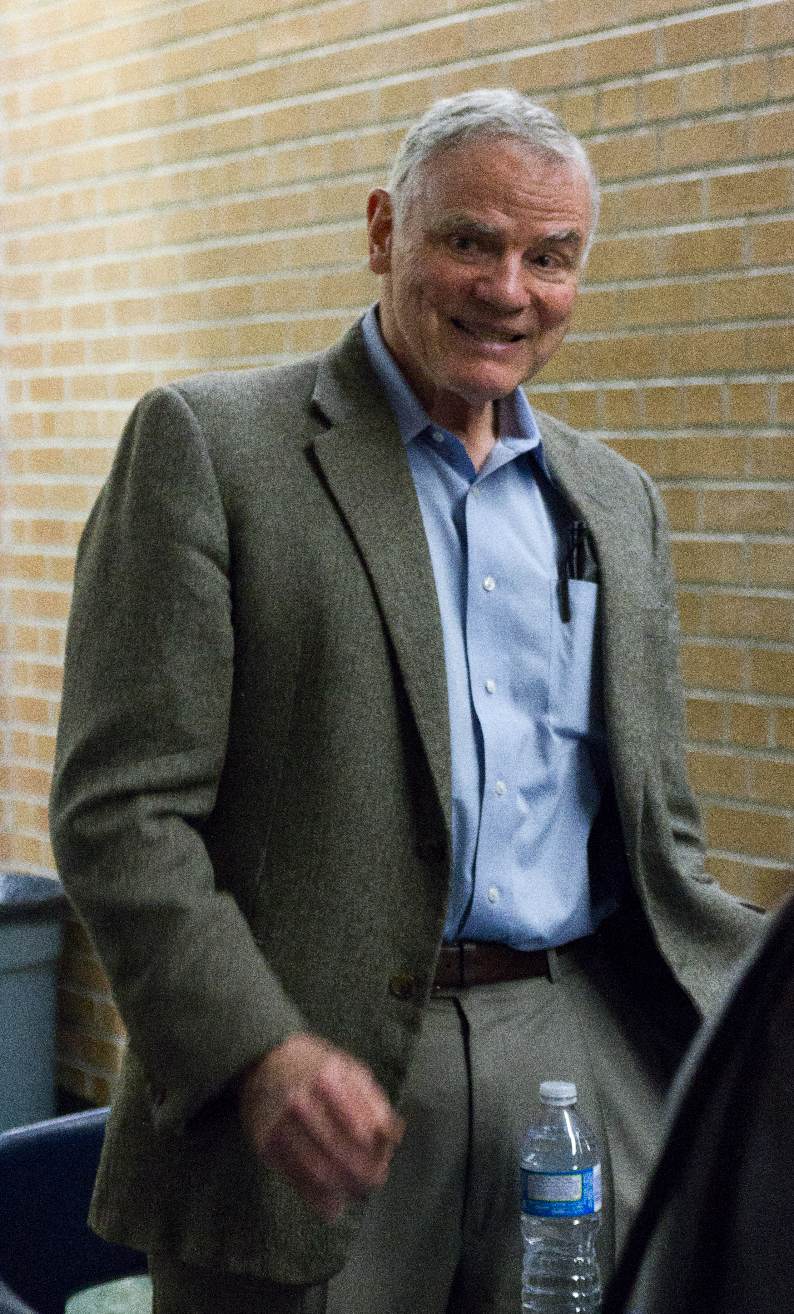 Dr. Leroy Hood at a book signing following a lecture